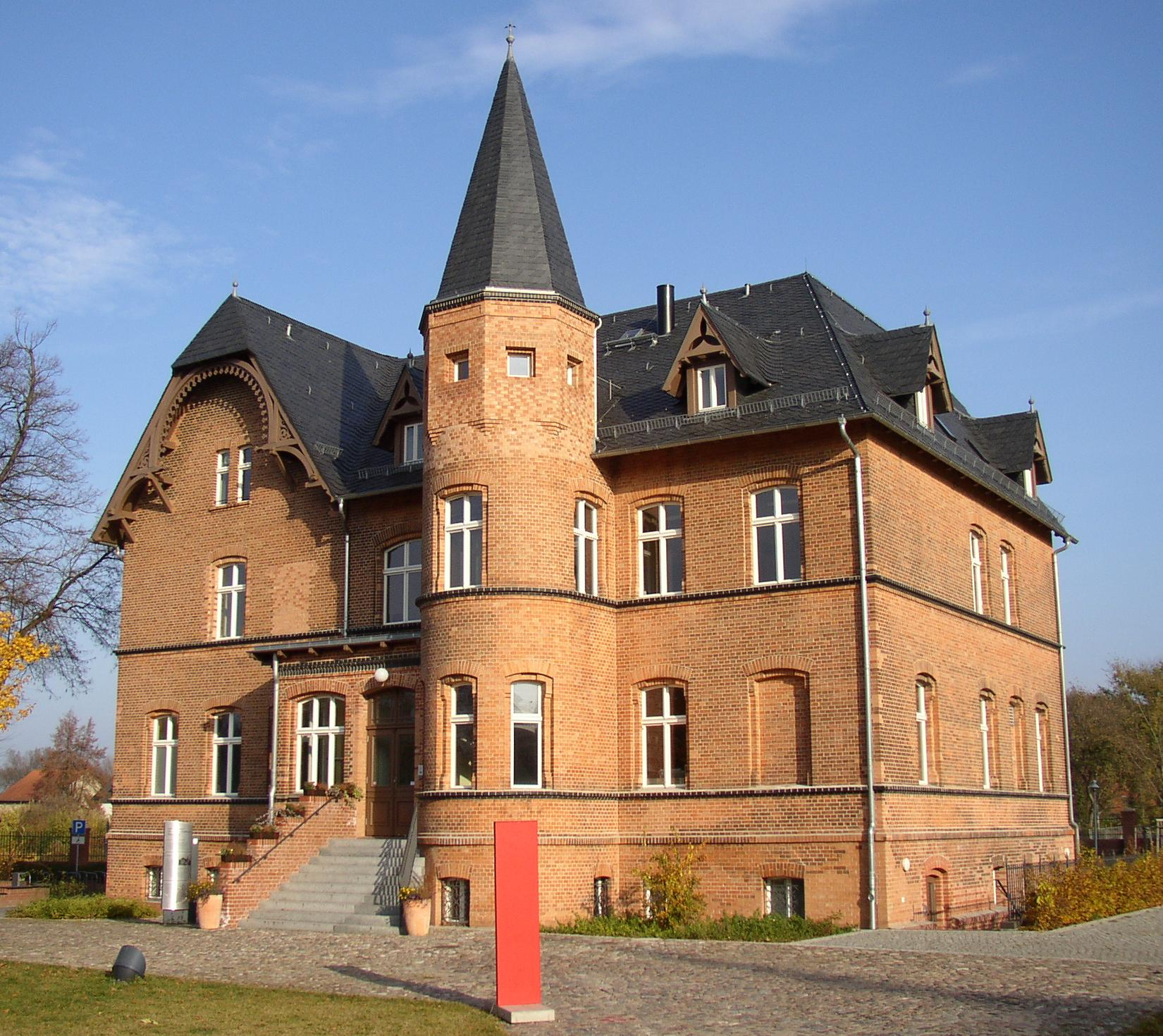 Manor house in Altlandsberg in Brandenburg, Germany